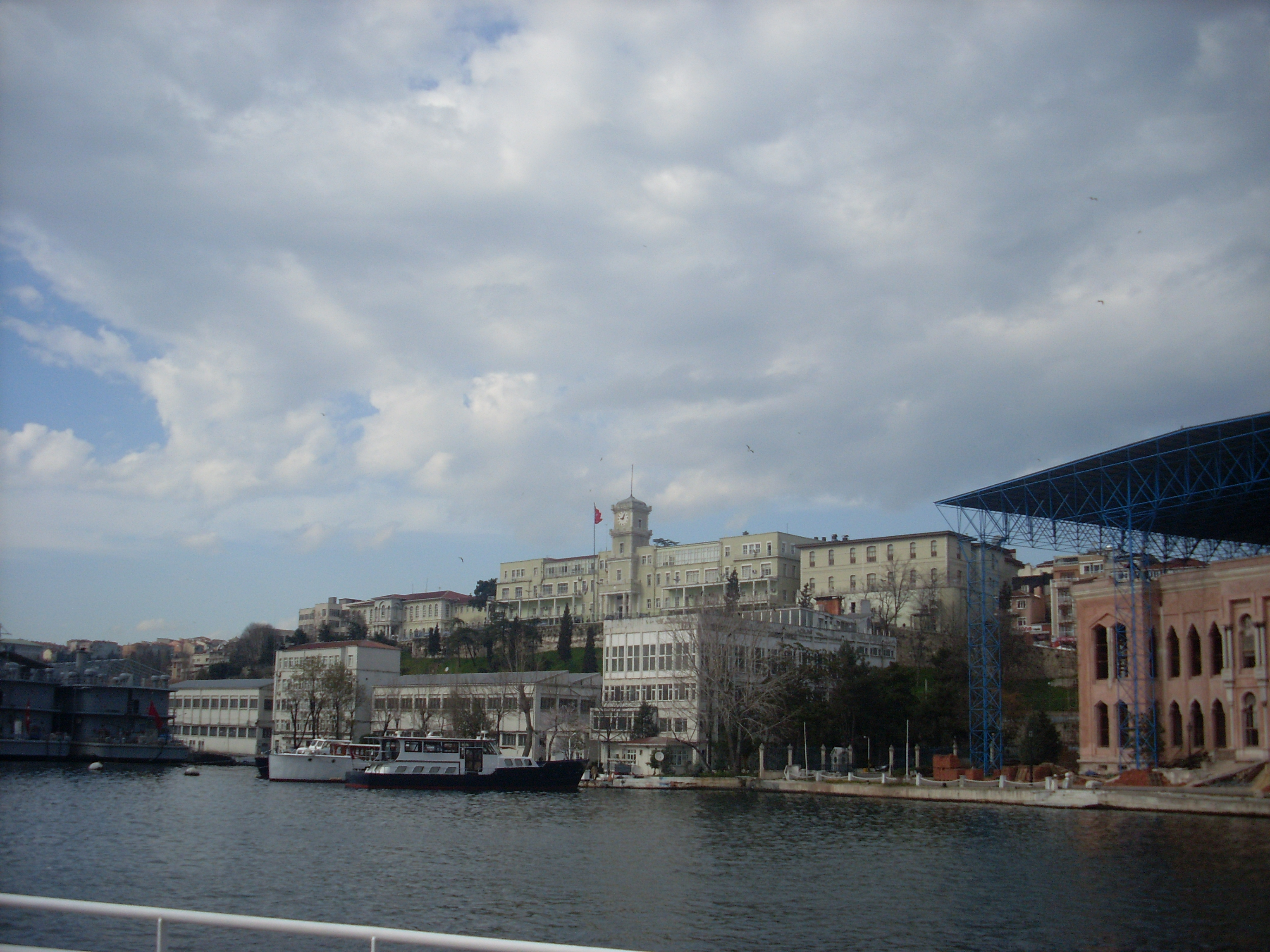 İstanbul - Kasımpaşa, Beyoğlu - Mart 2013 r4